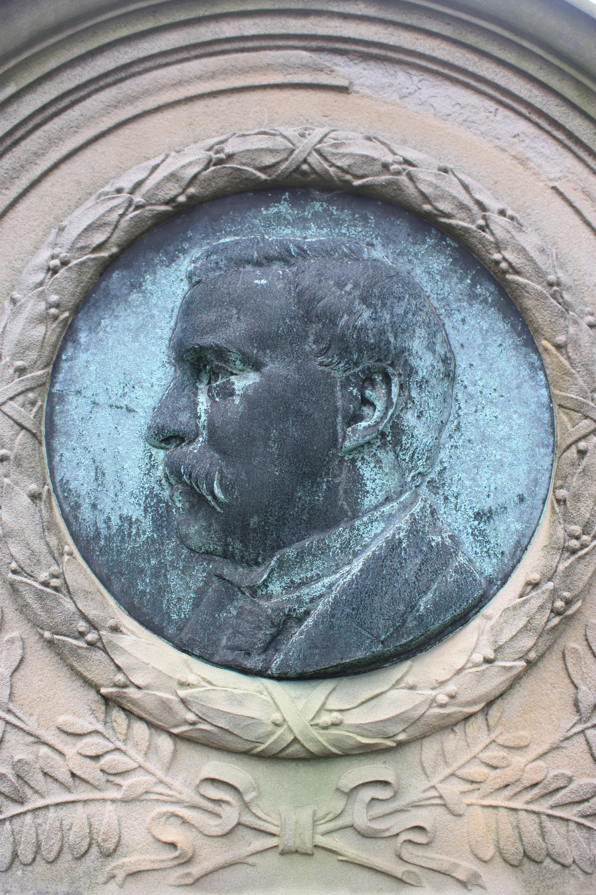 A bust of William Ivison Macadam (1856 – 1902), on his grave at Portobello Cemetery, Edinburgh. Sculpture by William Grant Stevenson.